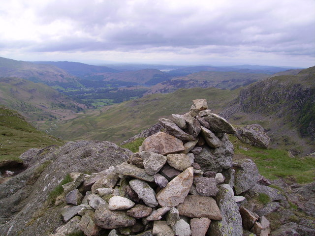 Summit Cairn, Calf Crag Deer Bields Crag in view over Far Easdale